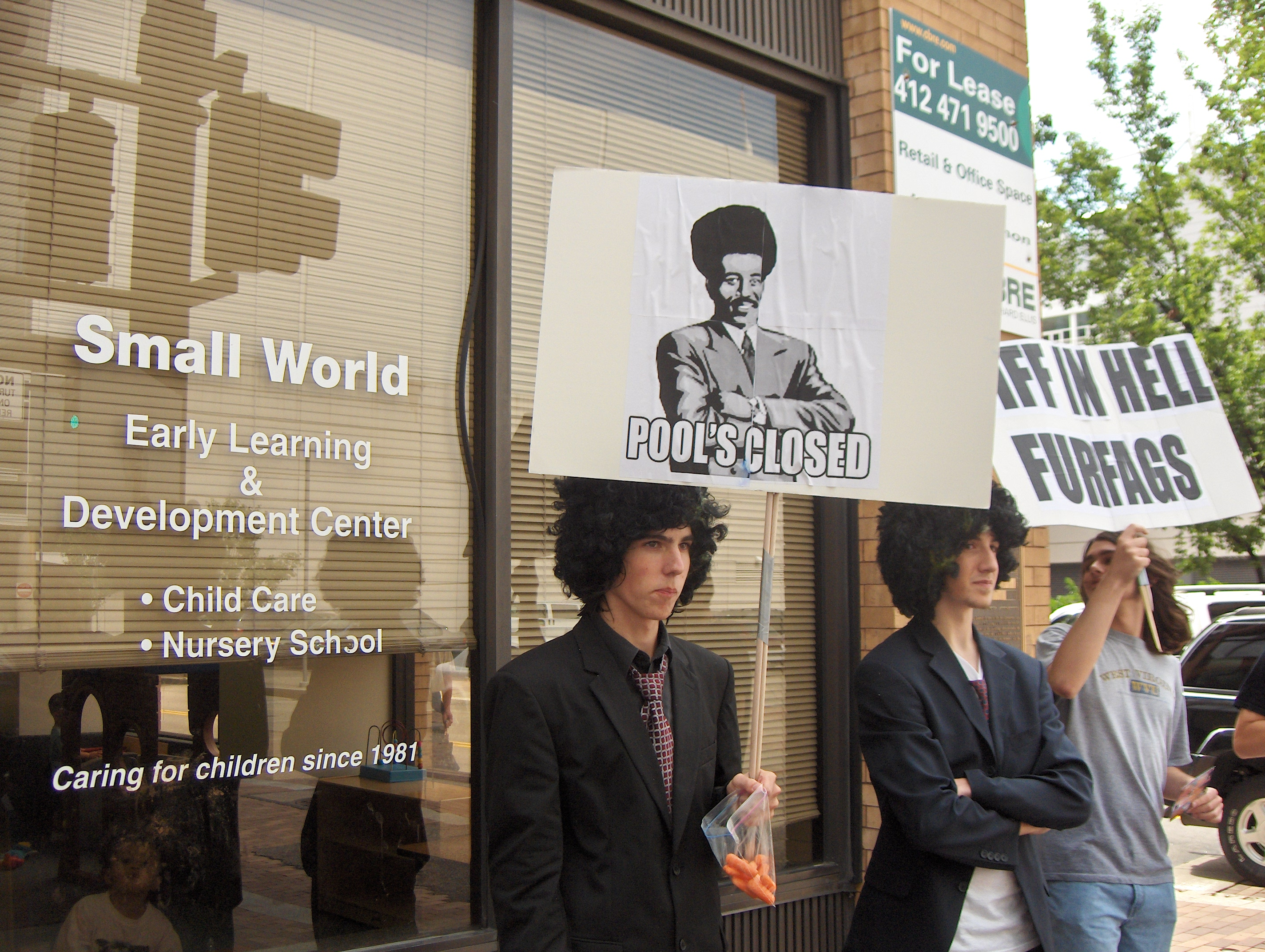 Members of 7chan protest against Anthrocon 2007 on a street corner opposite the convention. The signs and costumes are a reference to a previous 'raid' on Habbo Hotel.